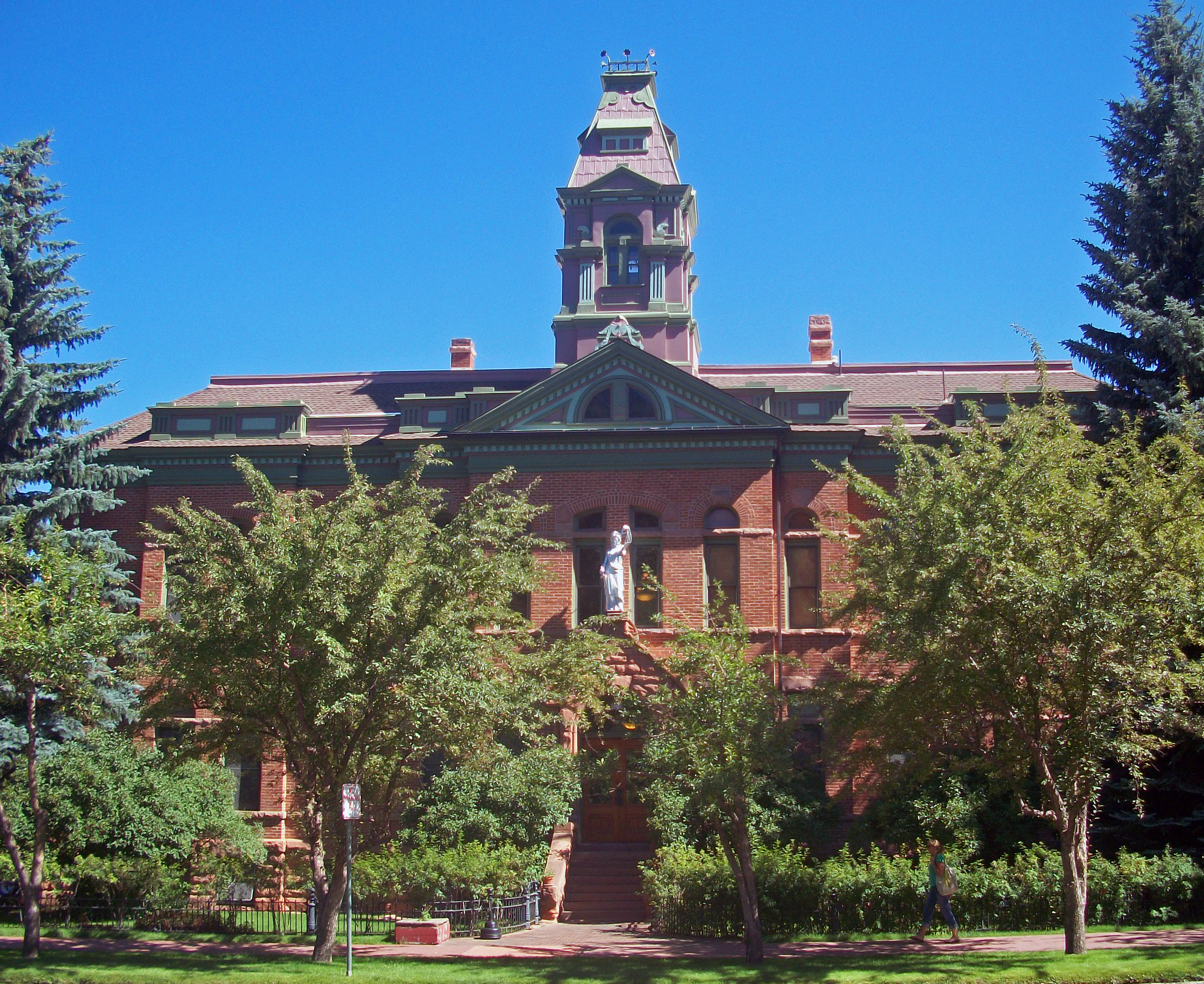 Full south (front) elevation of Pitkin County Courthouse, Aspen, CO, USA